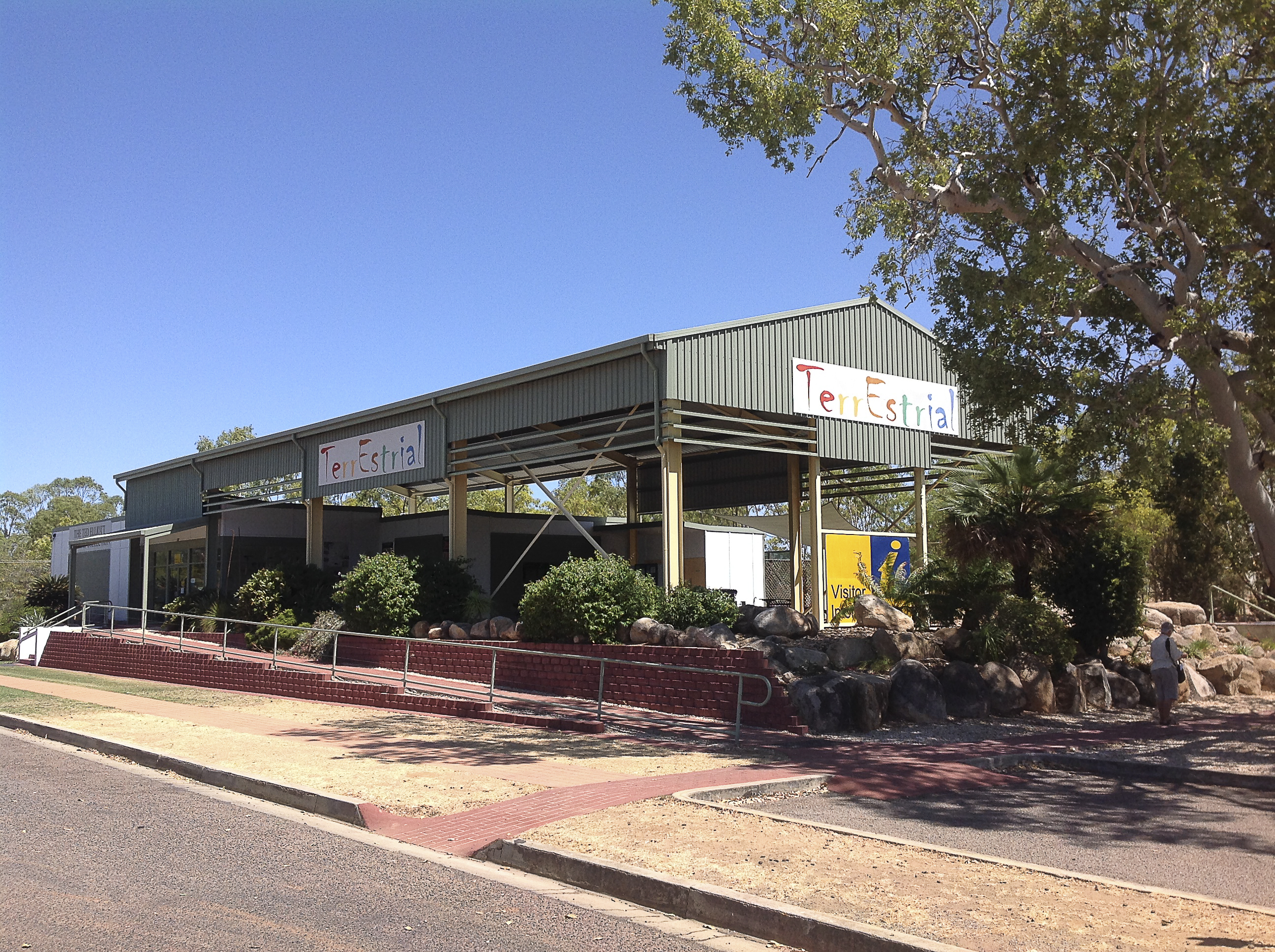 Includes the Ted Elliott mineral collection